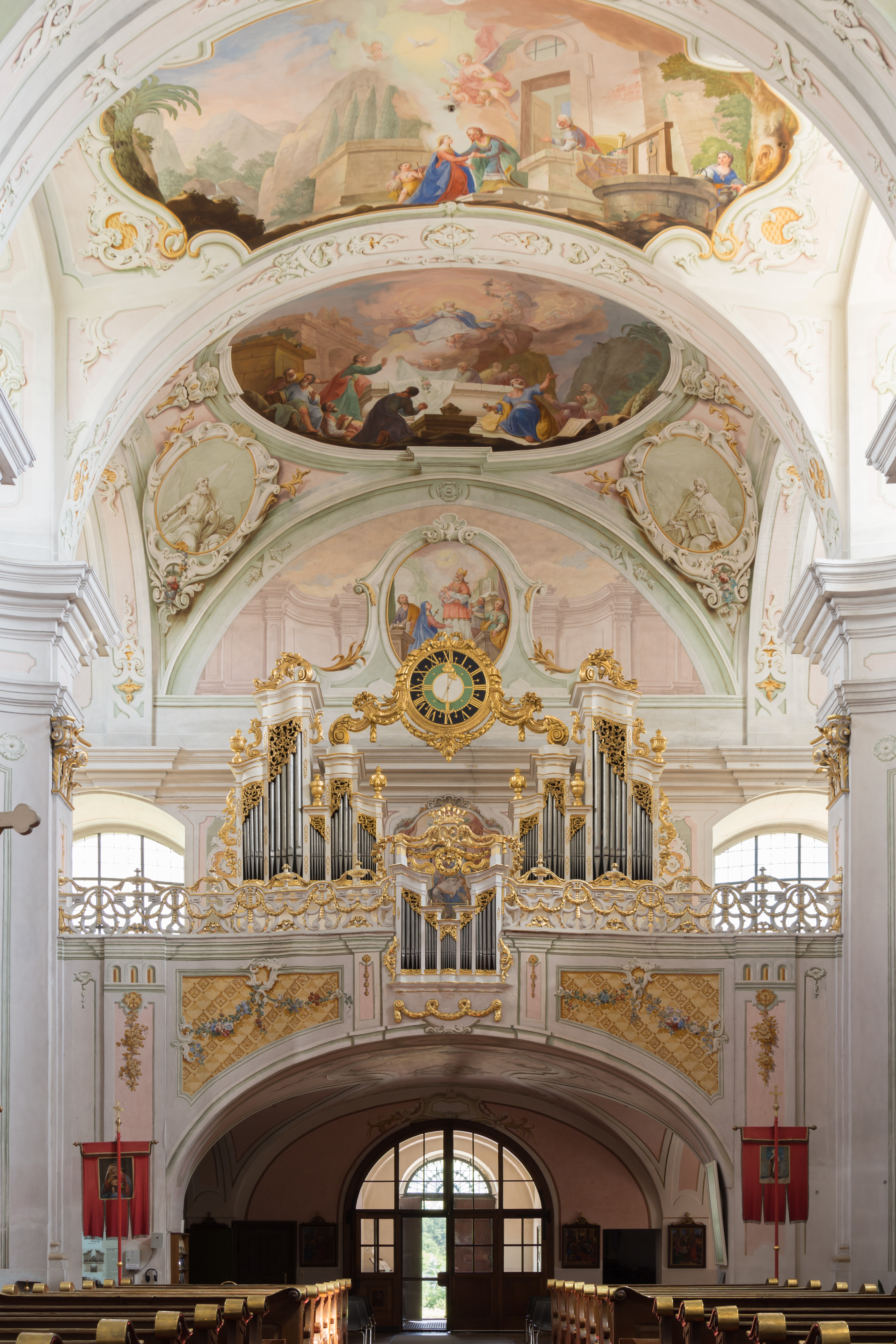 Organ of the pilgrimage church of Maria Langegg (Lower Austria) by Stephan Helmich (1781/82).